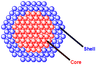 Core-shell nanoparticle illustration